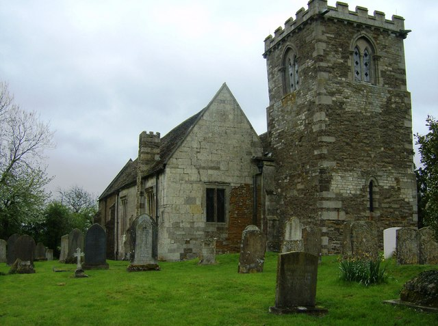 St Peter's parish church, Brooke, Rutland, seen from the northwest